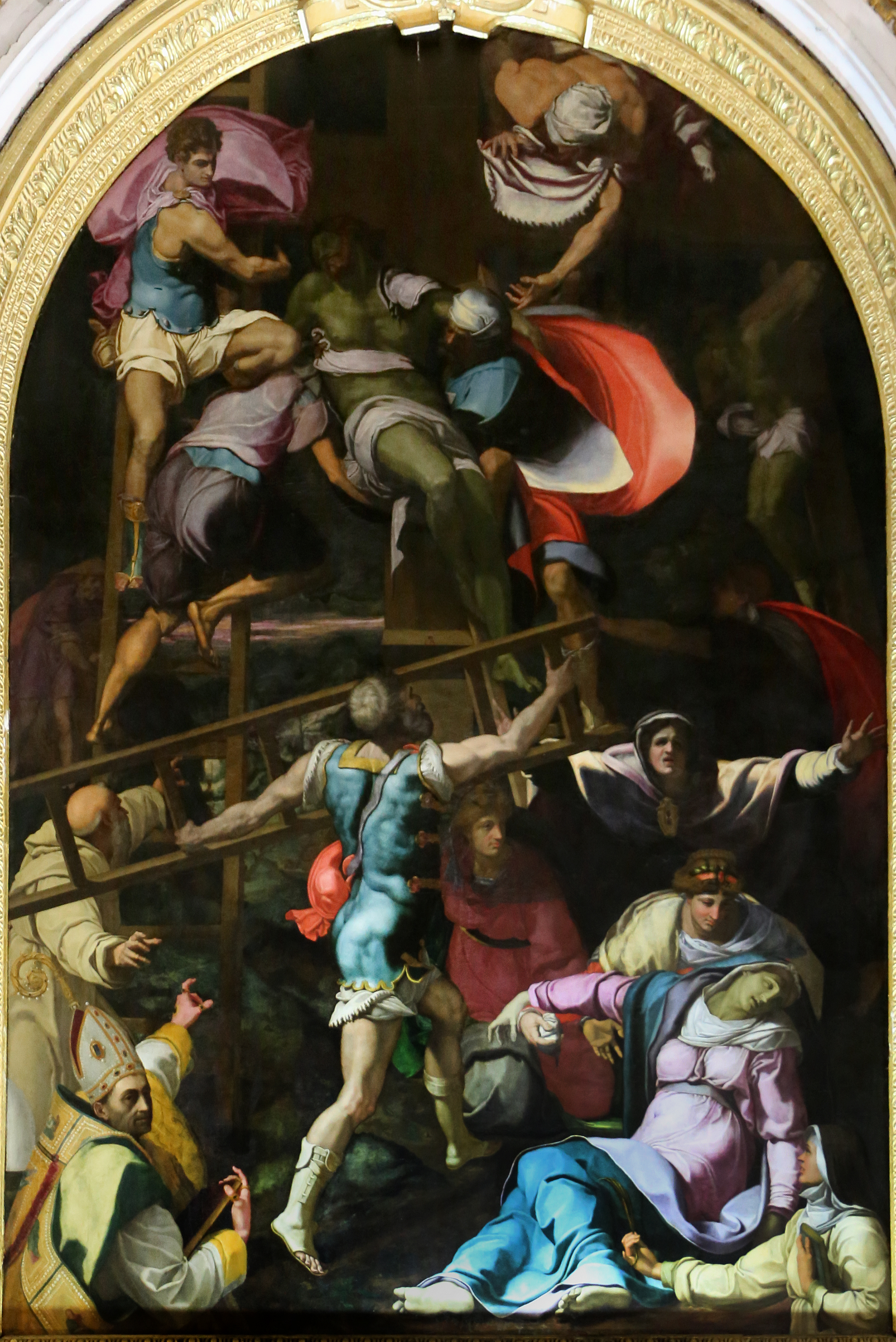 San Dalmazio (Volterra)